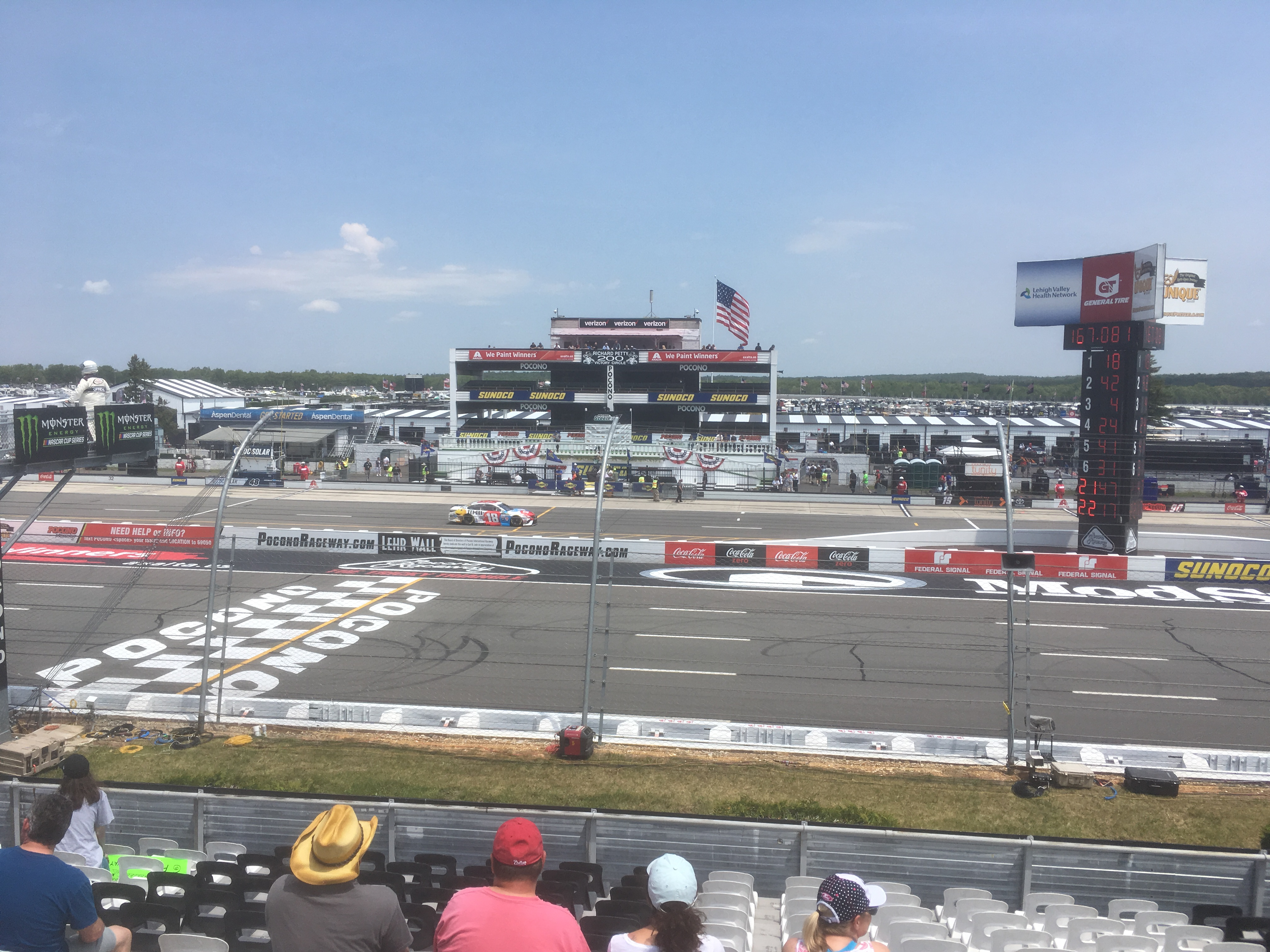 Final practice for the 2017 Axalta presents the Pocono 400 at Pocono Raceway viewed from the frontstretch. Kyle Busch (#18) drives by on pit road.